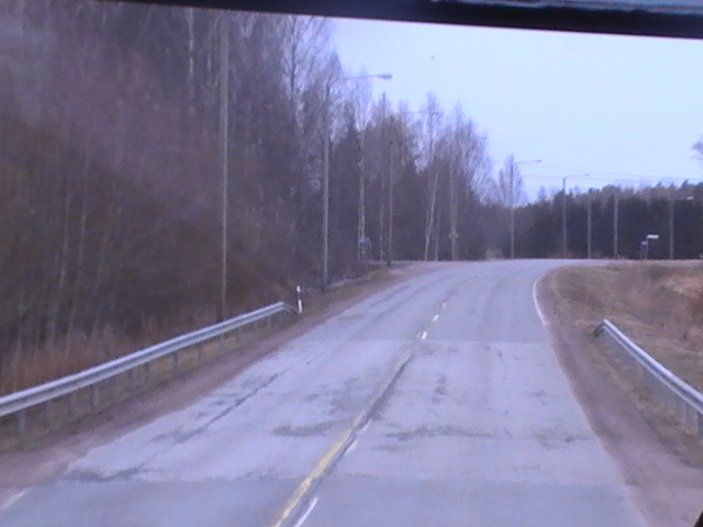 Finnish regional road at Kiukainen, Eura. The photo has took from the bus.